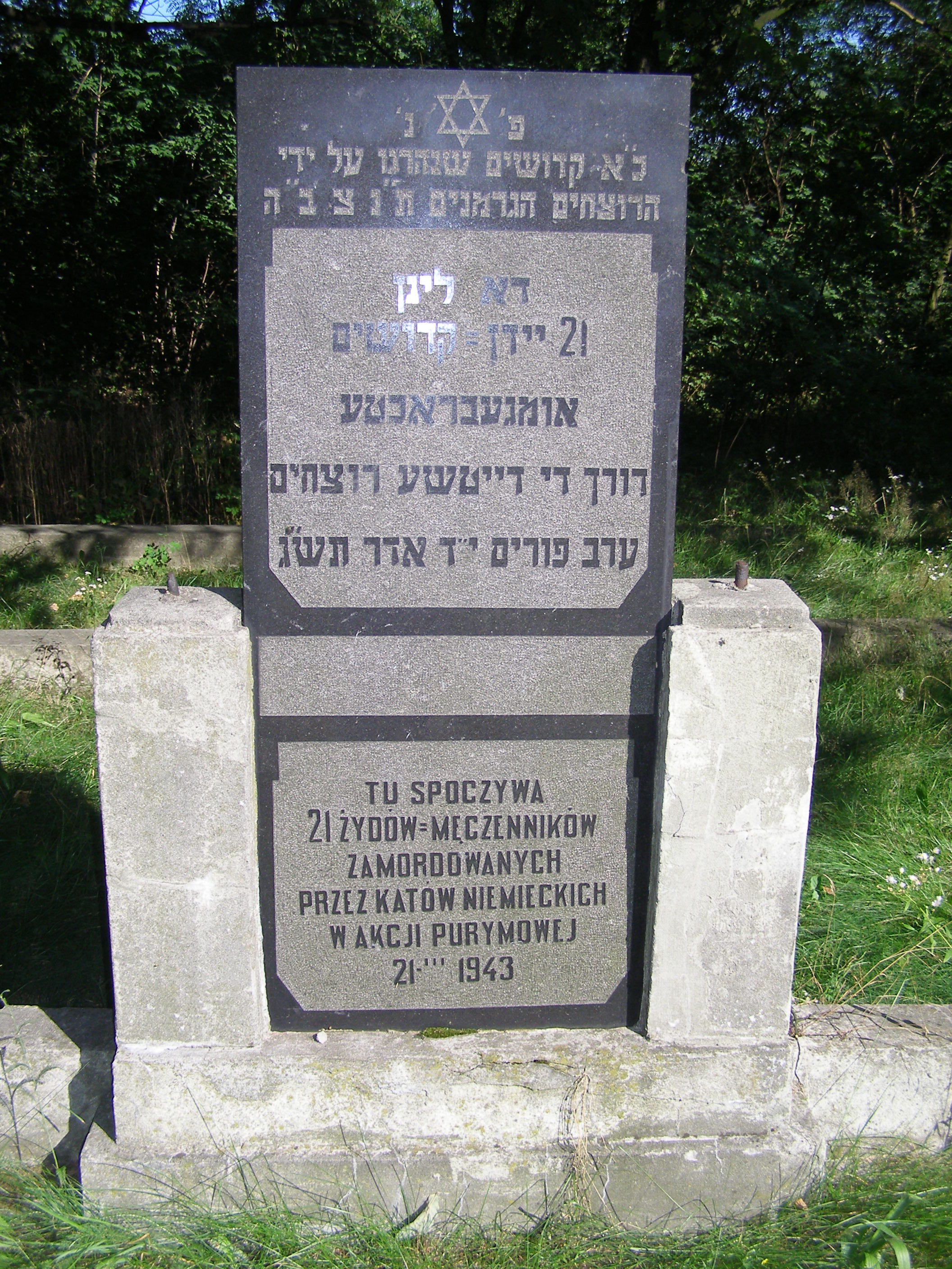 Memorial of the 21 Jewish Martyrs killed by the Nazis during the so called Purim action (21.03.1943), Jewish Cemetery in Tomaszów Mazowiecki